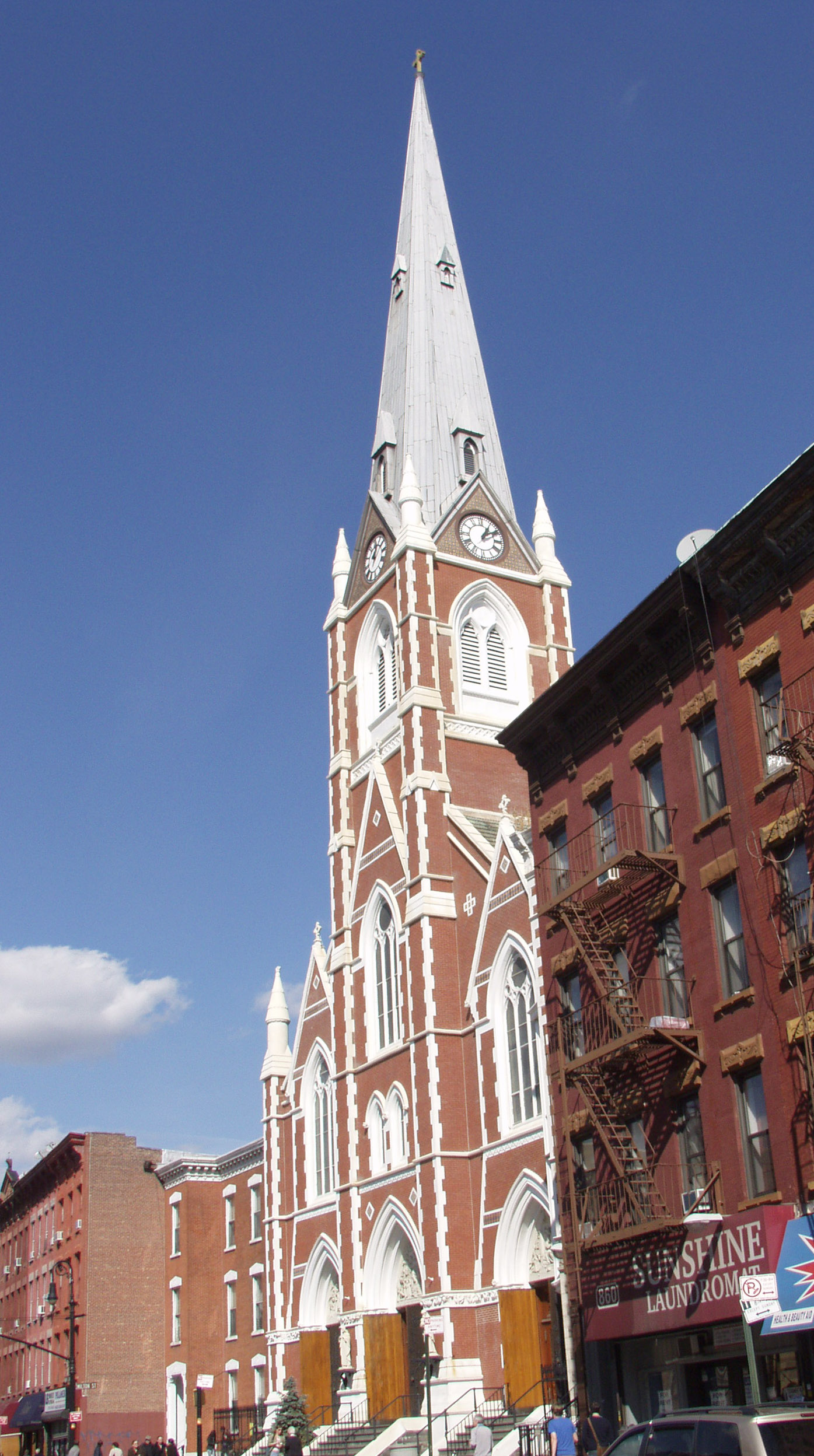 Looking north up Manhattan Avenue at St Anthony of Padua Roman Catholic Church on a sunny midday. EXIF puts us on wrong side of the Avenue.